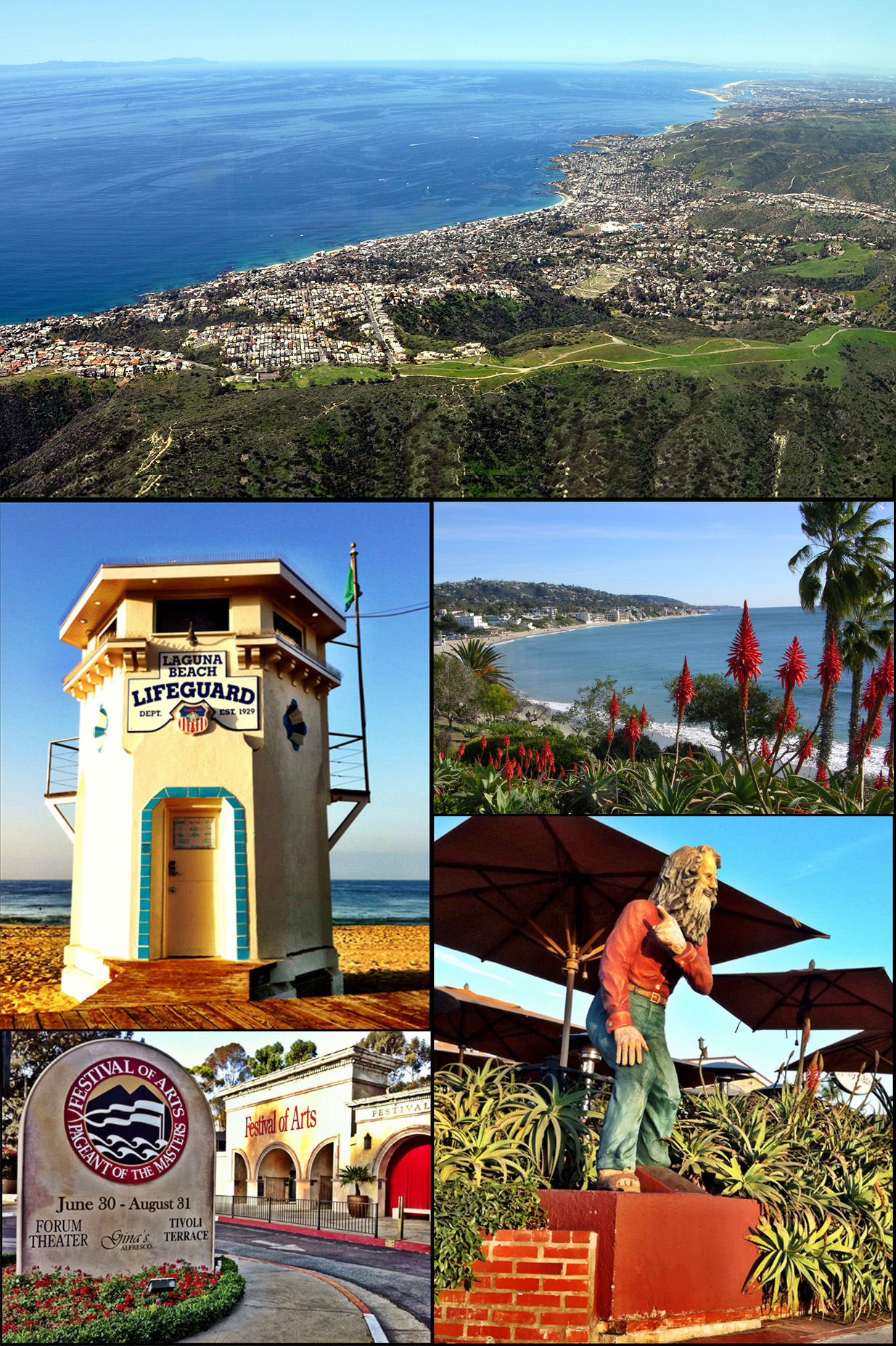 Montage of Laguna Beach photos on Wikimedia Commons